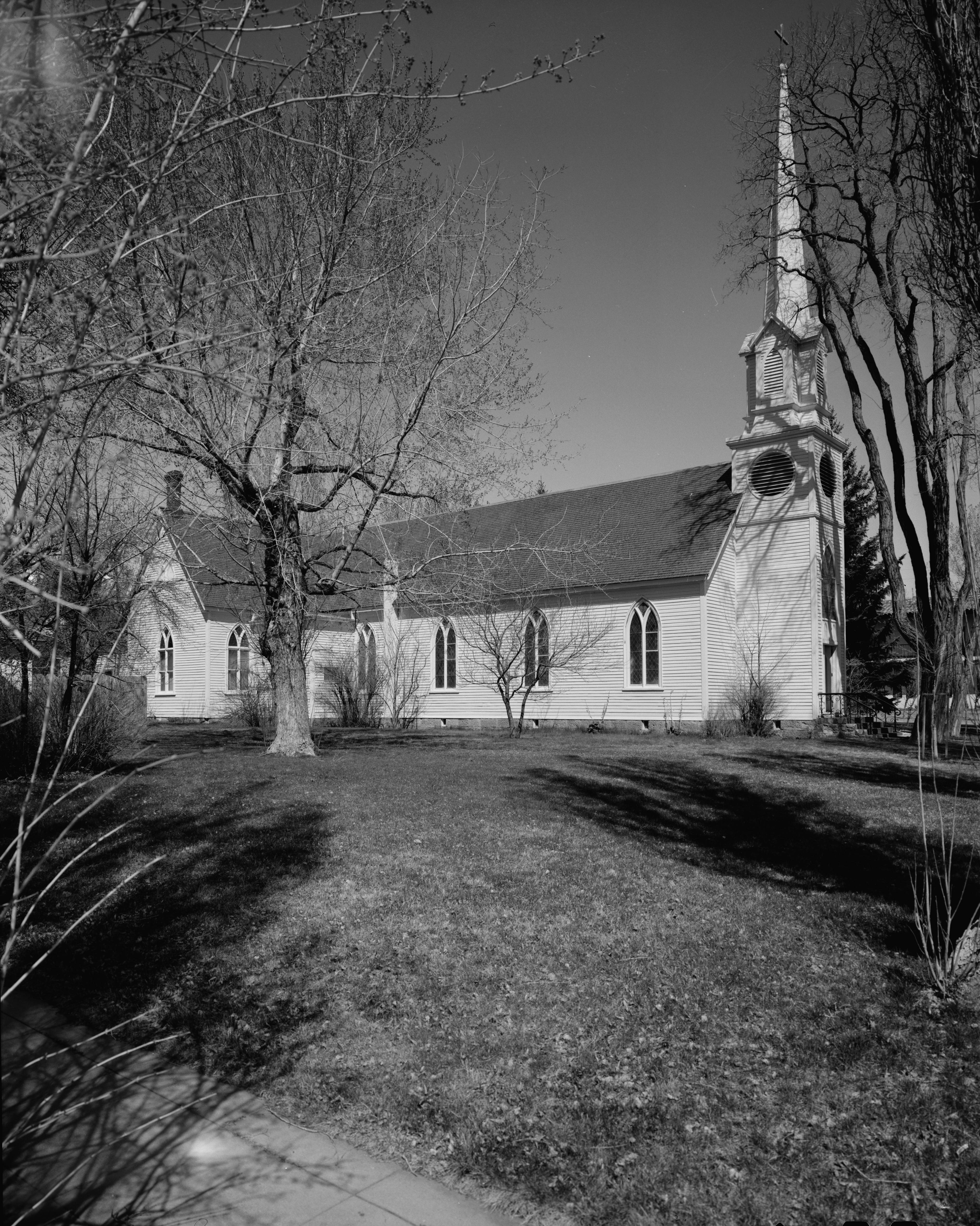 Front of St. Peter's Episcopal Church, located at 312 N. Division Street in Carson City, Nevada, United States. Built in 1868, it is listed on the National Register of Historic Places.